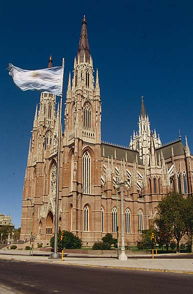 Summary La Plata Cathedral Licensing 05:05, 3 January 2006 Fenton85 386x586 (45132 bytes) (La Plata Cathedral)